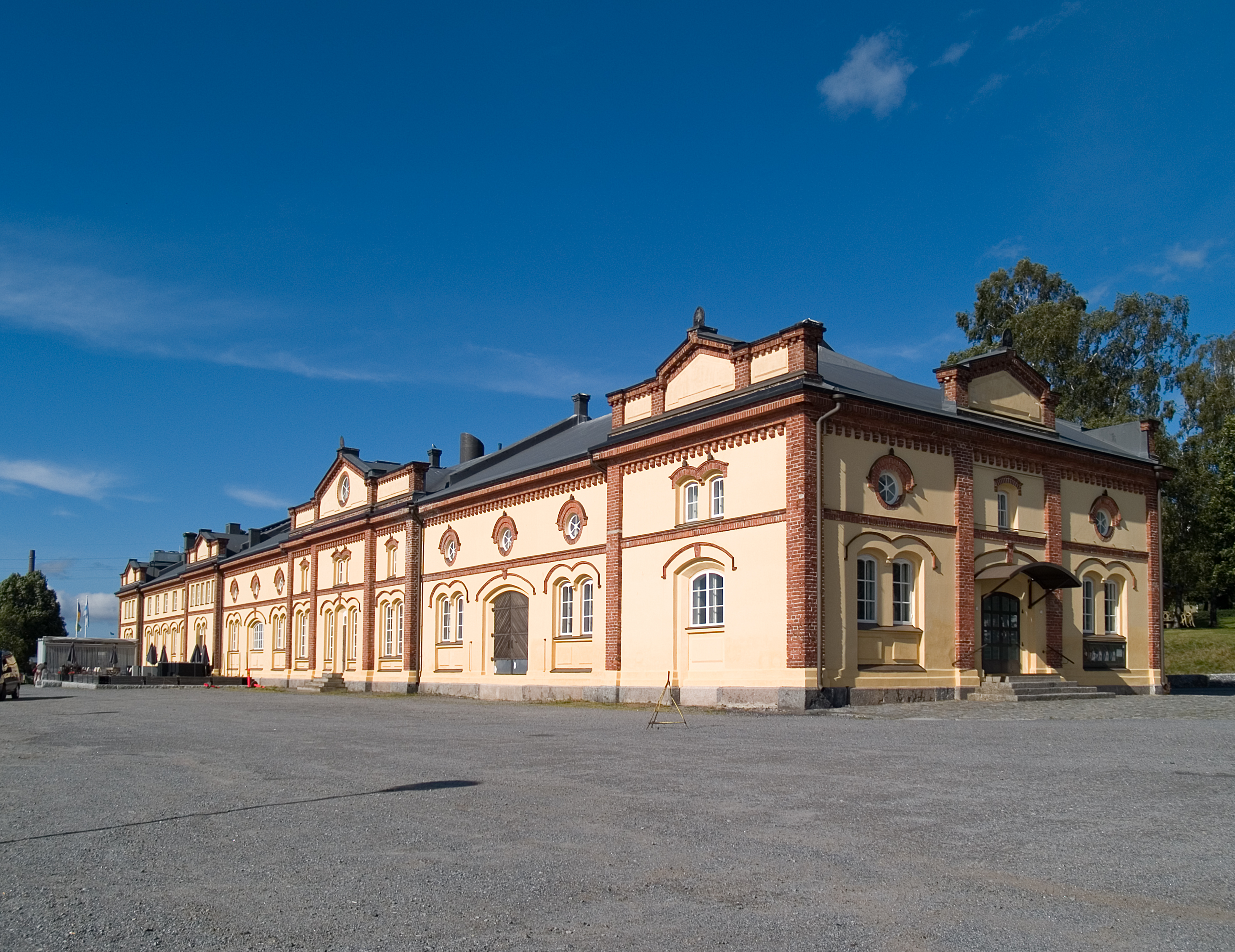 Kuntsi Museum of Modern Art, renovated into a former customs warehouse in the Inner Harbour of Vaasa, Finland.